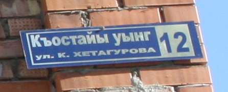 Bilingual sign in Kvaisa.